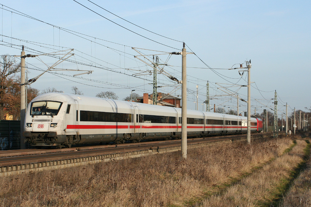 The rail cars of the former Metropolitan run on an InterCity train on the Berlin-Hannover high-speed railway line, near Gardelegen.